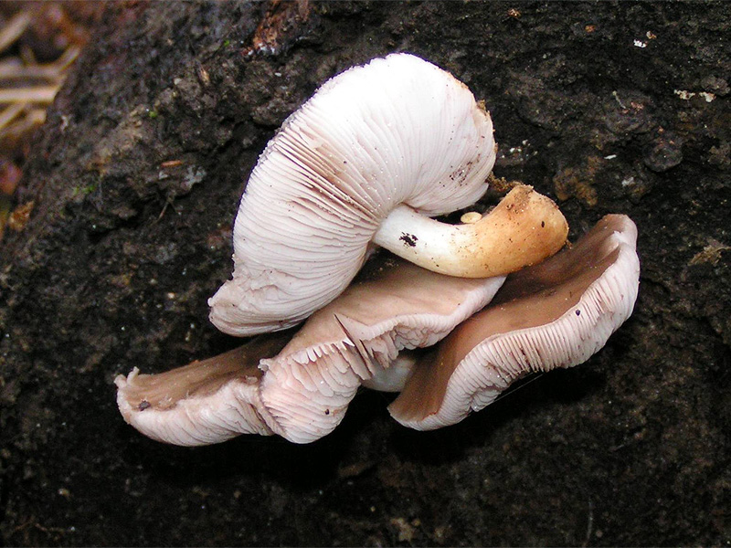 Deer Mushroom